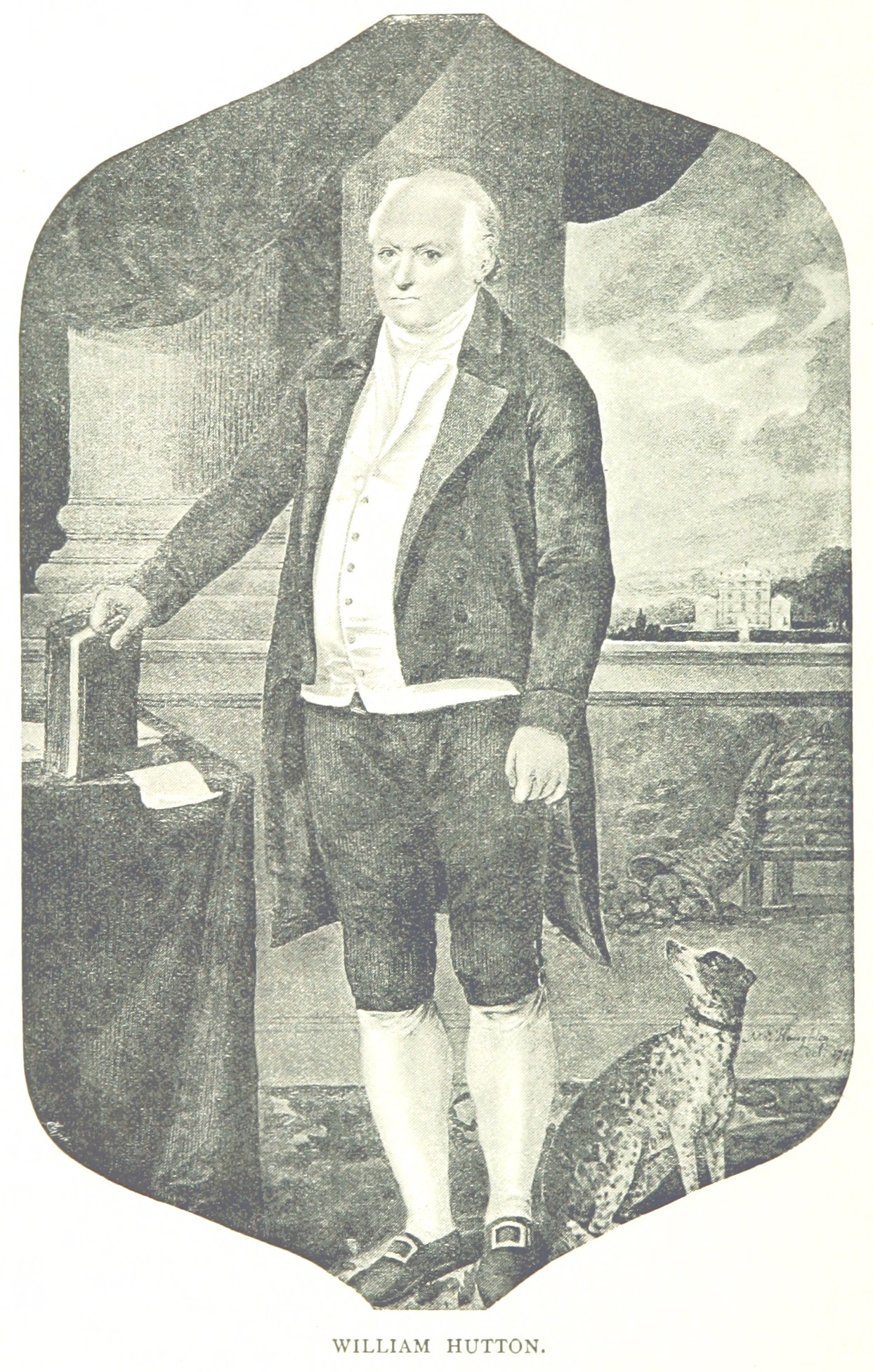 Print of William Hutton (historian). Page 136 (BL page 164).